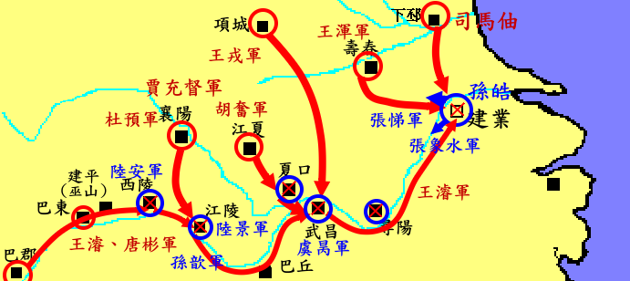 Jin's Conquest of Wu.